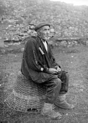 Basque farmer smoking in pipe